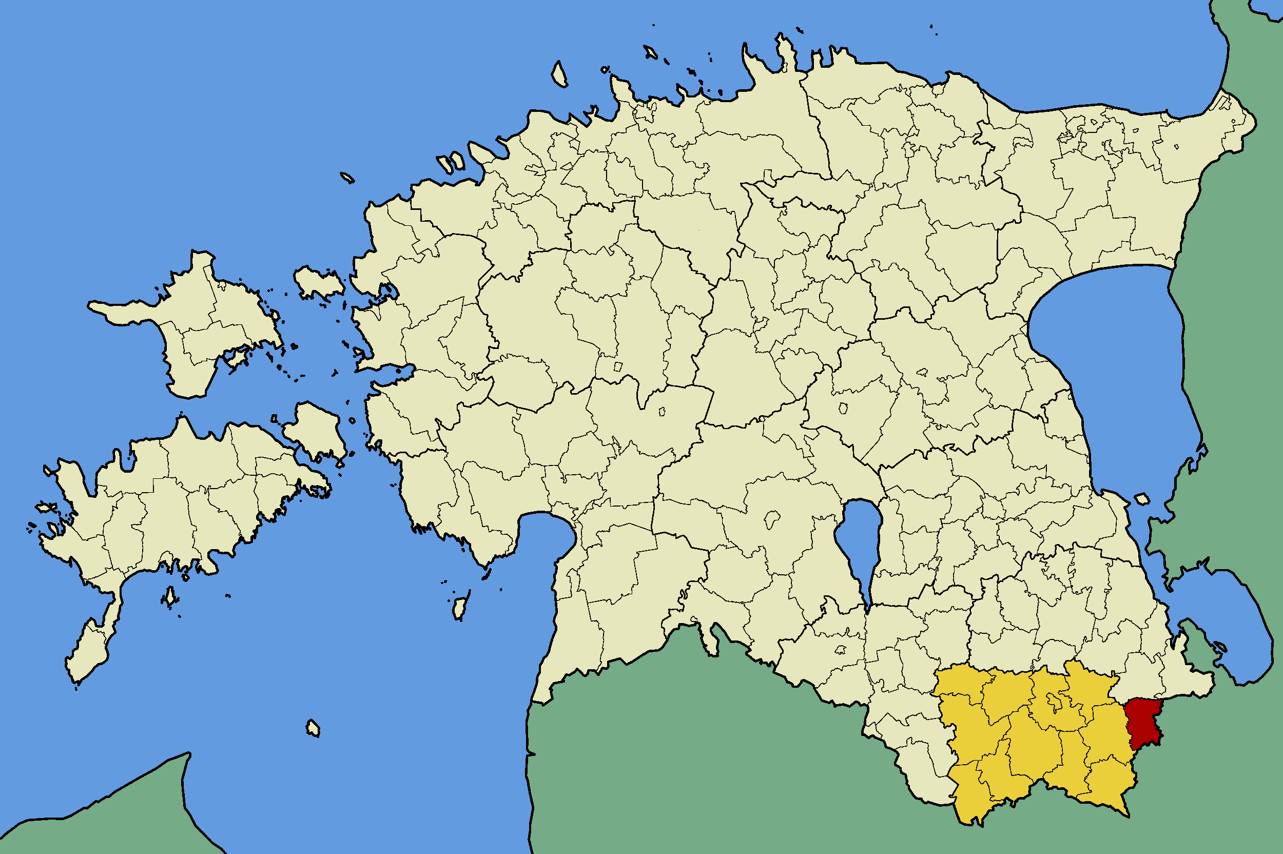 Map of Estonia with borders of municipalities (parishes). Võru county and Meremäe municipality emphasized.